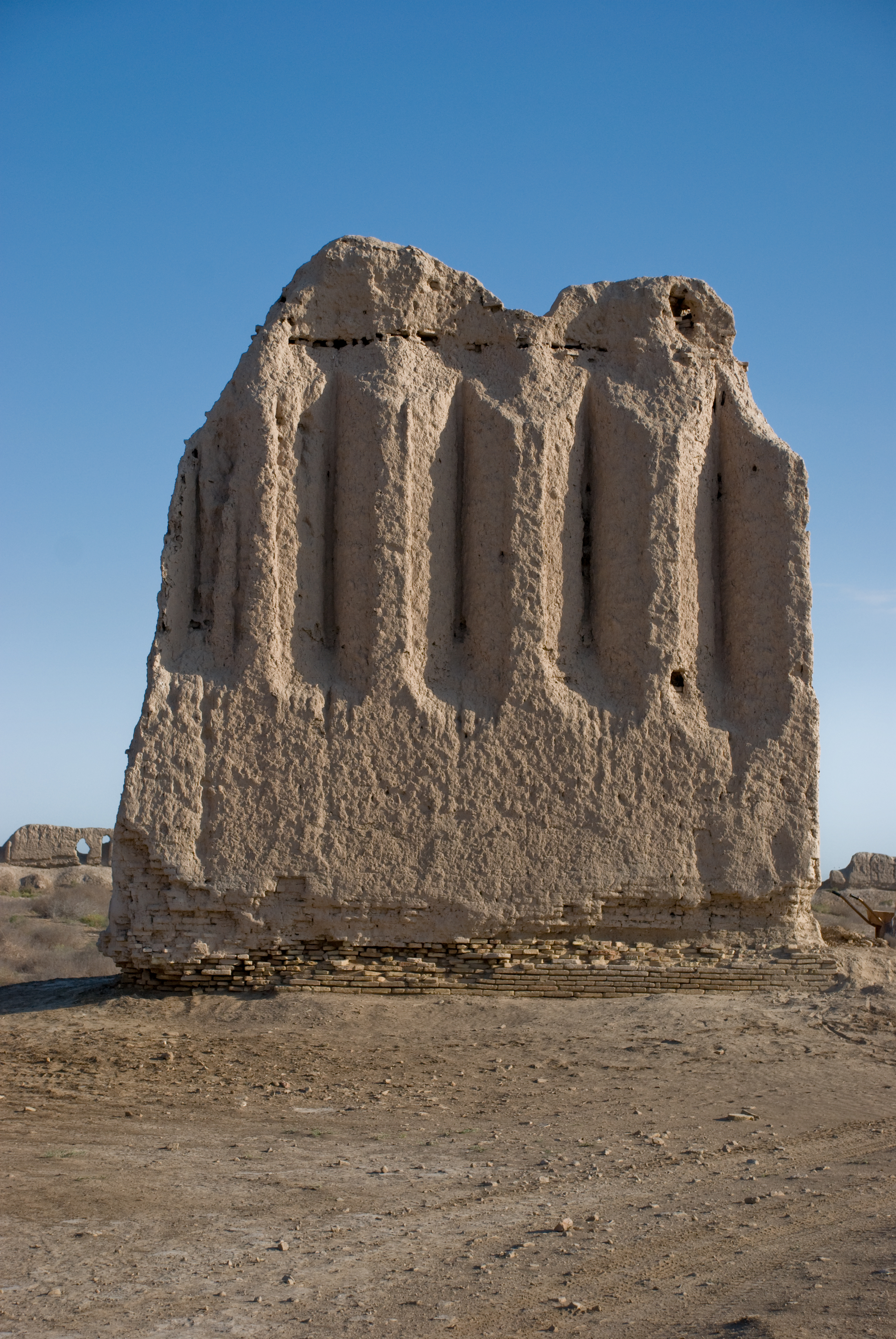 The Kepter Khana of Shahriyar Ark is one of a number of such buildings within the Merv landscape. This one is located immediately west of the Palace structure and is upon the same elevated platform as the palace. Their exact function is unknown: they are long, narrow structures with corrugated walls. Kepter Khana translates as Pigeon House : a name derived from the idea that the numerous square niches lining the interior walls resembled pigeon coupes. The purpose of these niches is in fact unknown; another interpretation being that the buildings were libraries and the niches were shelves for scrolls.